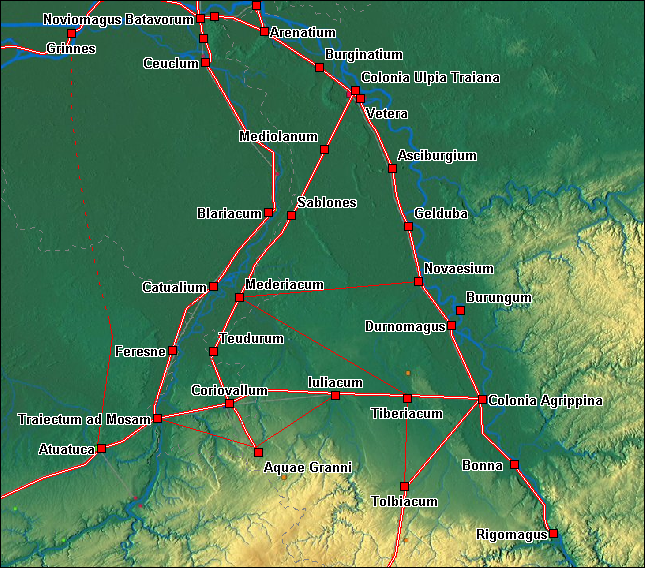 Detail of Germania inferior